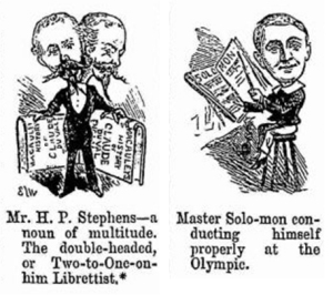 Caricatures of Henry Pottinger Stephens and Edward Solomon scanned from Punch magazine, 17 September 1881, p. 125. Public domain.